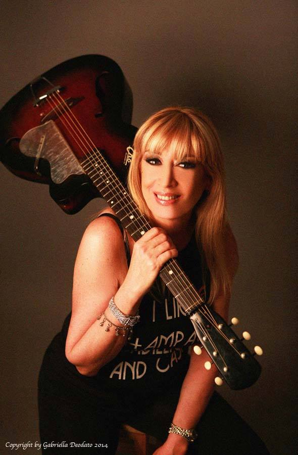 Loriana Lana, Italian songwriter.